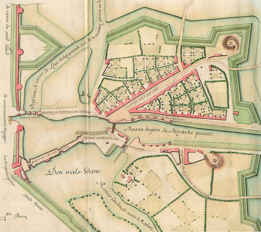 Brugse Poort, Ghent Belgium